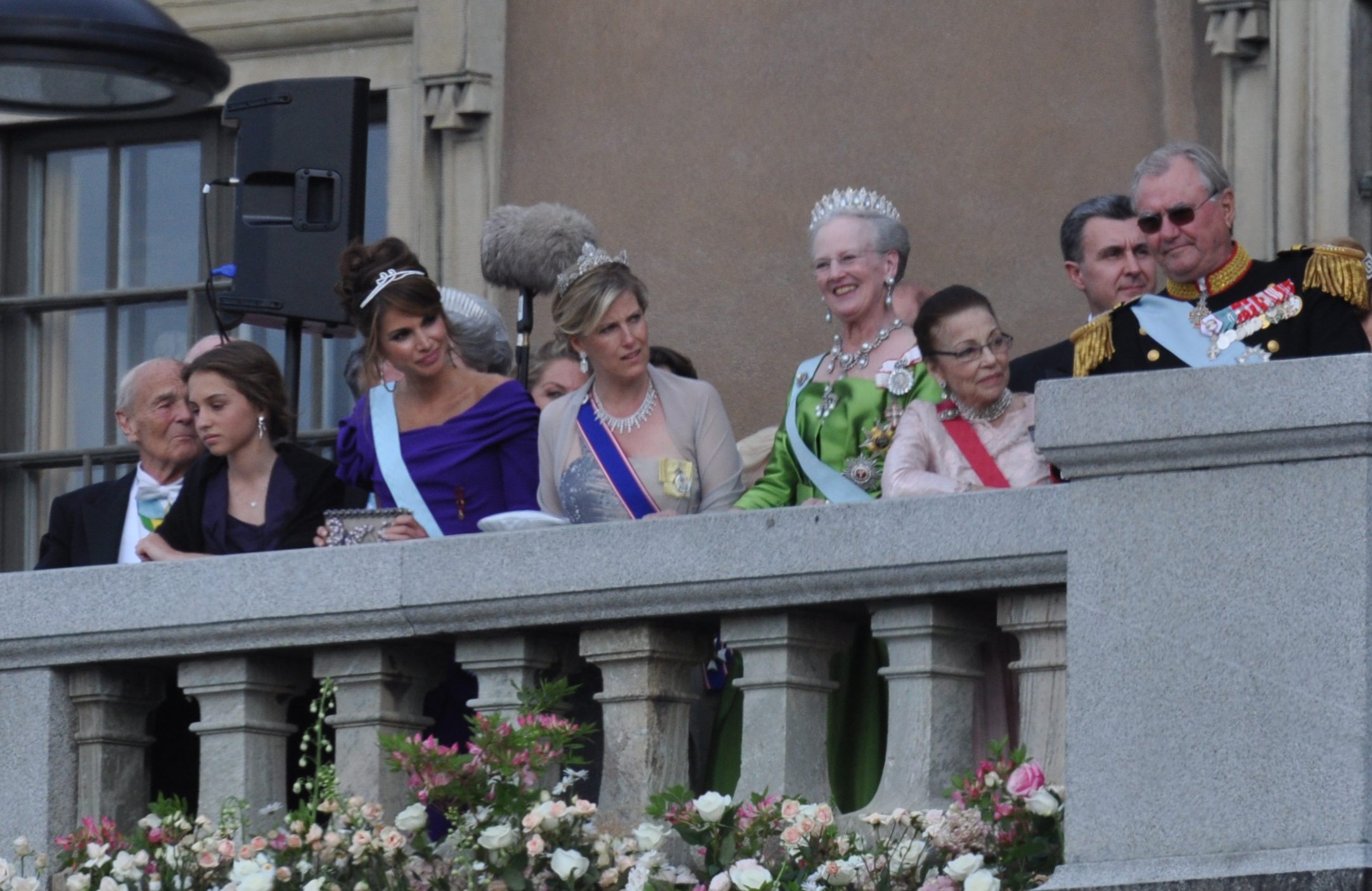 Wedding of Victoria, Crown Princess of Sweden, and Daniel Westling. The Couple at Lejonbacken, guests at the terrace.